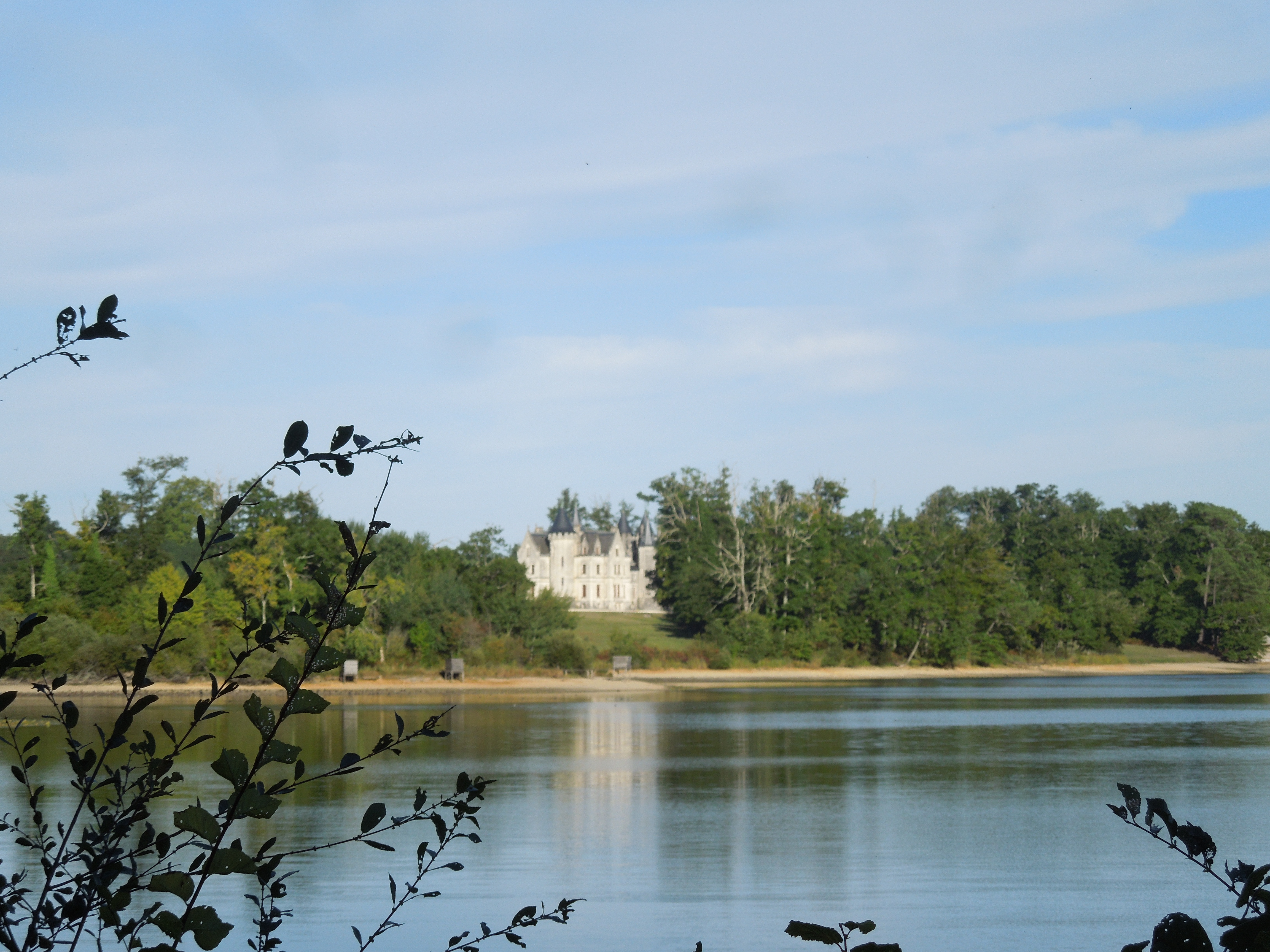 The Château de Saint-Maigrin and the lake of Saint-Maigrin